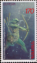 Stamp of Armenia